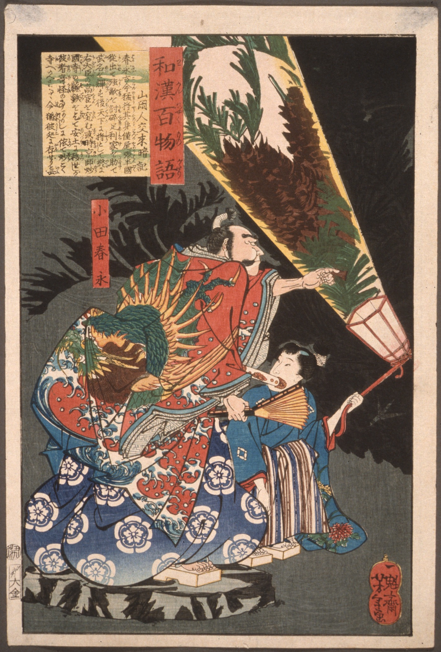 Japan, 1865, 2nd month Series: One Hundred Ghost Tales from China and Japan Prints; woodcuts Color woodblock print Herbert R. Cole Collection (M.84.31.62) Japanese Art 小田春永（織田信長のこと）が妙国寺の大蘇鉄を安土城に移植したところ夜な夜な蘇鉄がうめき声を上げ、切りつけると鮮血が飛び散るなど異変が起こったため、元の寺に戻した。驚く信長と森蘭丸を描いたもの。